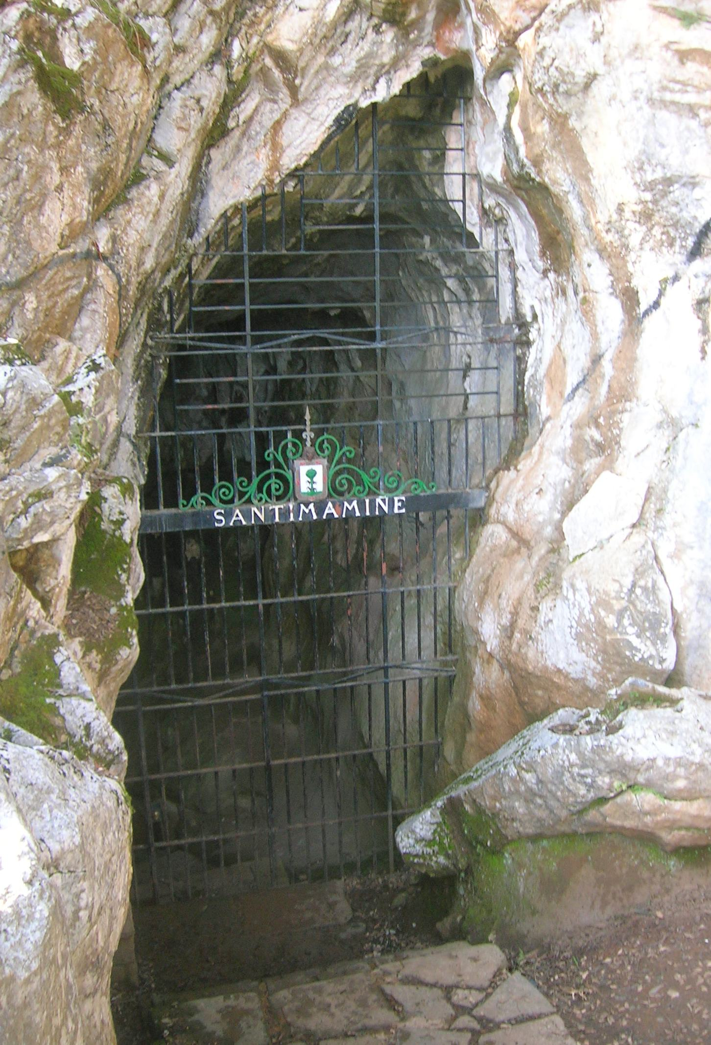 Entry to Santimamine Cave, in Kortezubi, Biscay, Spain